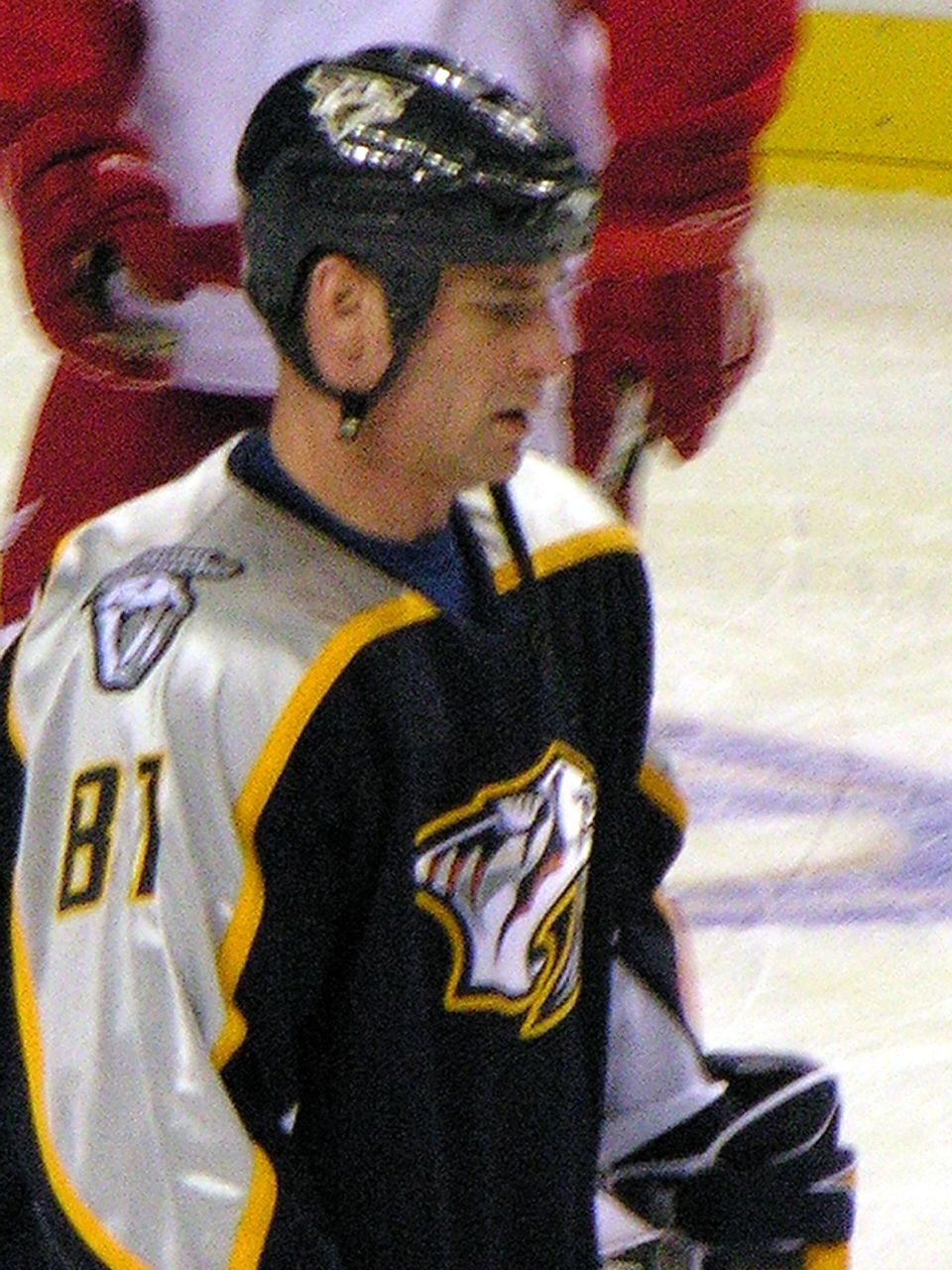 Mike Sillinger, ice hockey player, here seen playing for the Nashville Predators